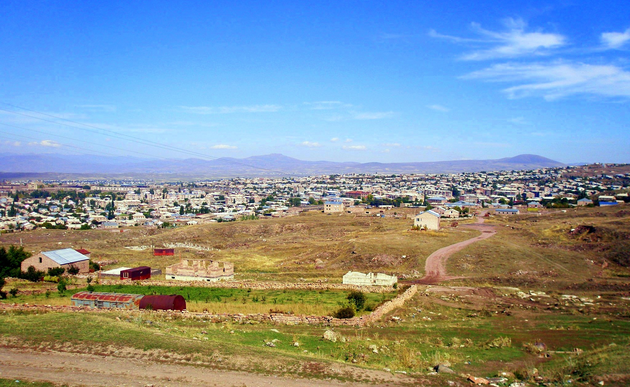 Artik